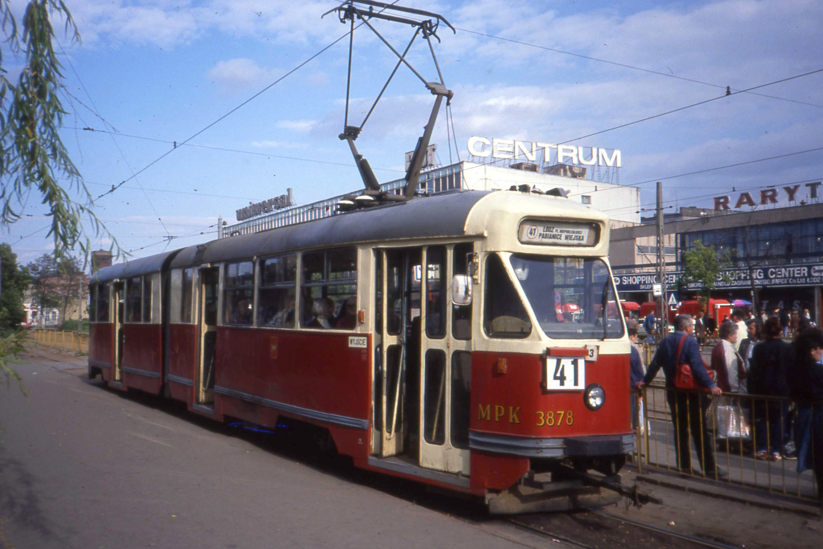 Konstal 102Na tram nr 3878 was new to MPK Łódź in 1973 as 878, renumbered in 1985. It was withdrawn the year after this photo in 1992 Of the long overland "vicinal" routes, 41-46, only the 46 to Zgierz in the north and the 43 and 43bis to the west survive. From the current map the 46 and 46A run to the Chochianowice IKEA store, (The 46 is perhaps the longest route nowadays from Zgierz to IKEA), whence the Pabianice service P takes over rather than the 41 running all the way. More in Polish about the 41 Route and trams to Pabianice here PHotographed in Plac Niepodleglosci with the Centrum department store behind.